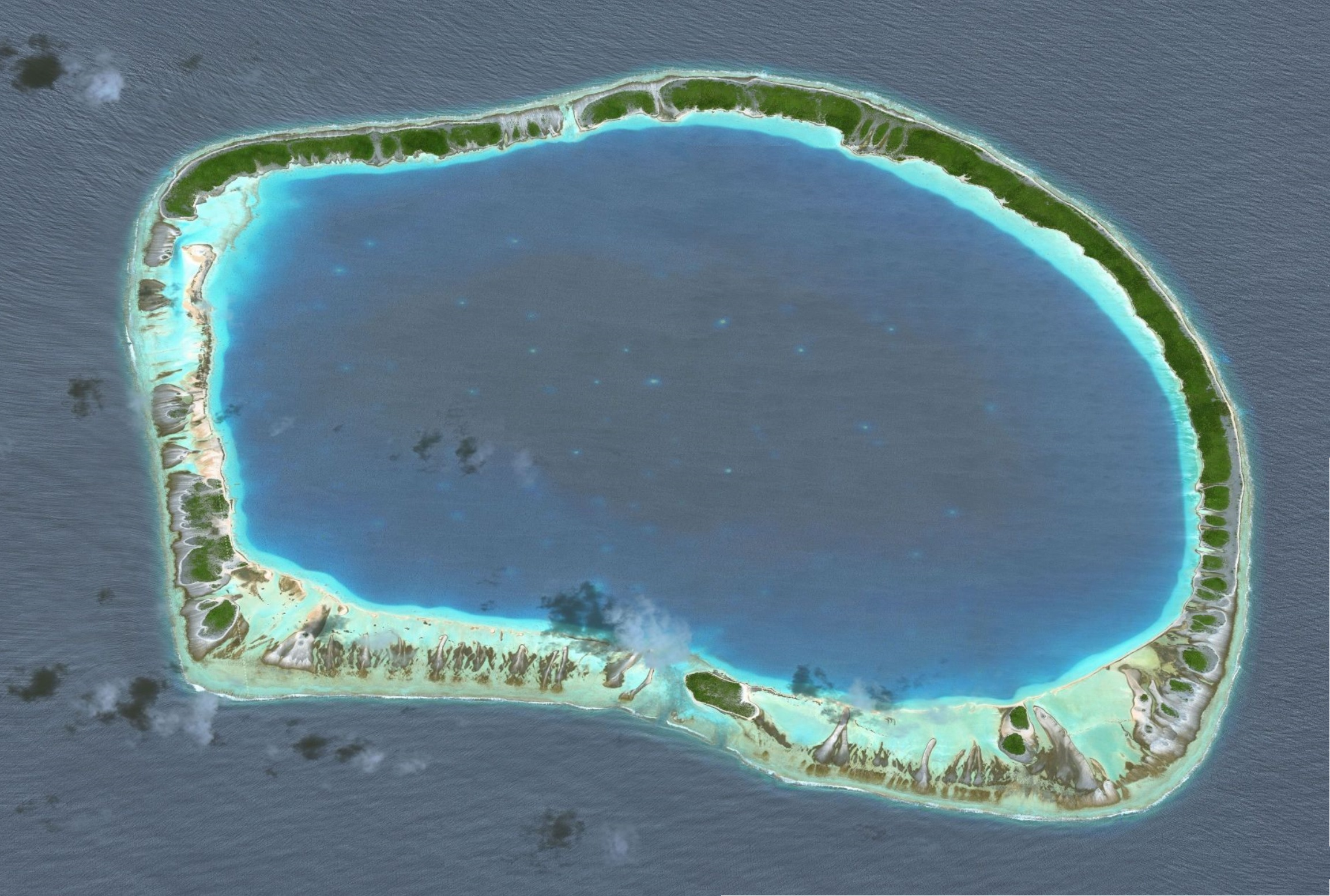 Tuanake atol from NASA